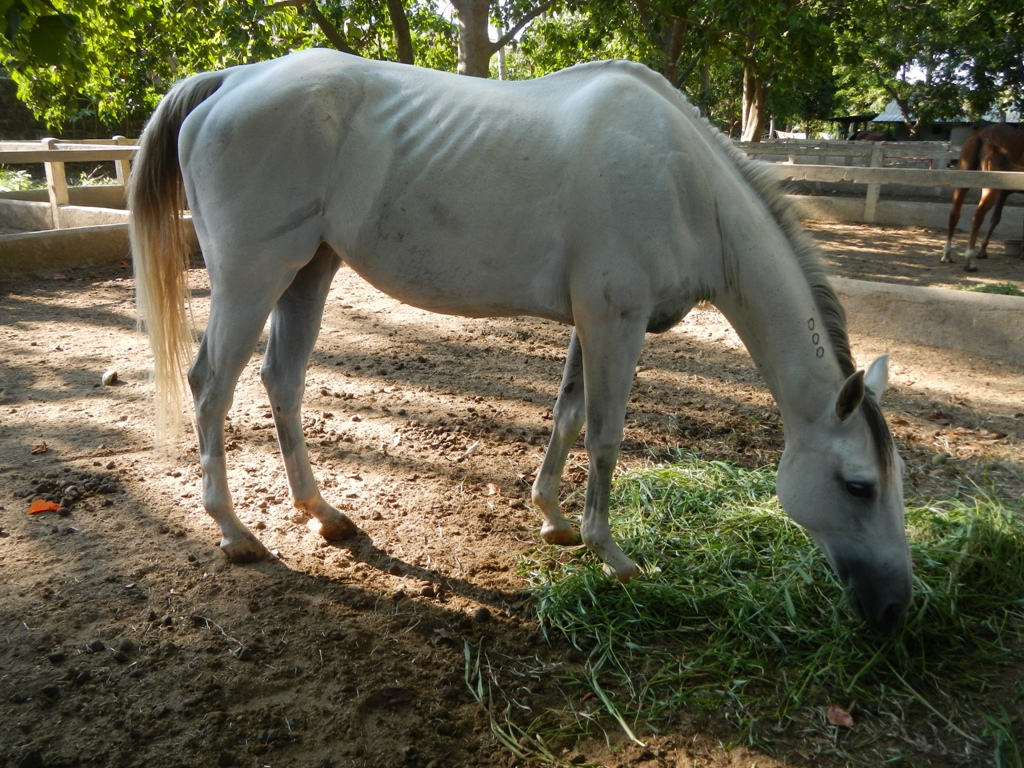 Horses in stables in Pulilan Polo Field of founder, Atty. Jun Eusebio BigBen Farm, Sitio Lucky 14, Barangay Tabon,Pulilan, Bulacan - this is a landmark site in Equestrian or horsemanship in the Philippines and subject shooting location of many Philppine TV series, dramas, soap operas like PariKoy, inter alia, and the Polo fields playing by international Polo players regularly.